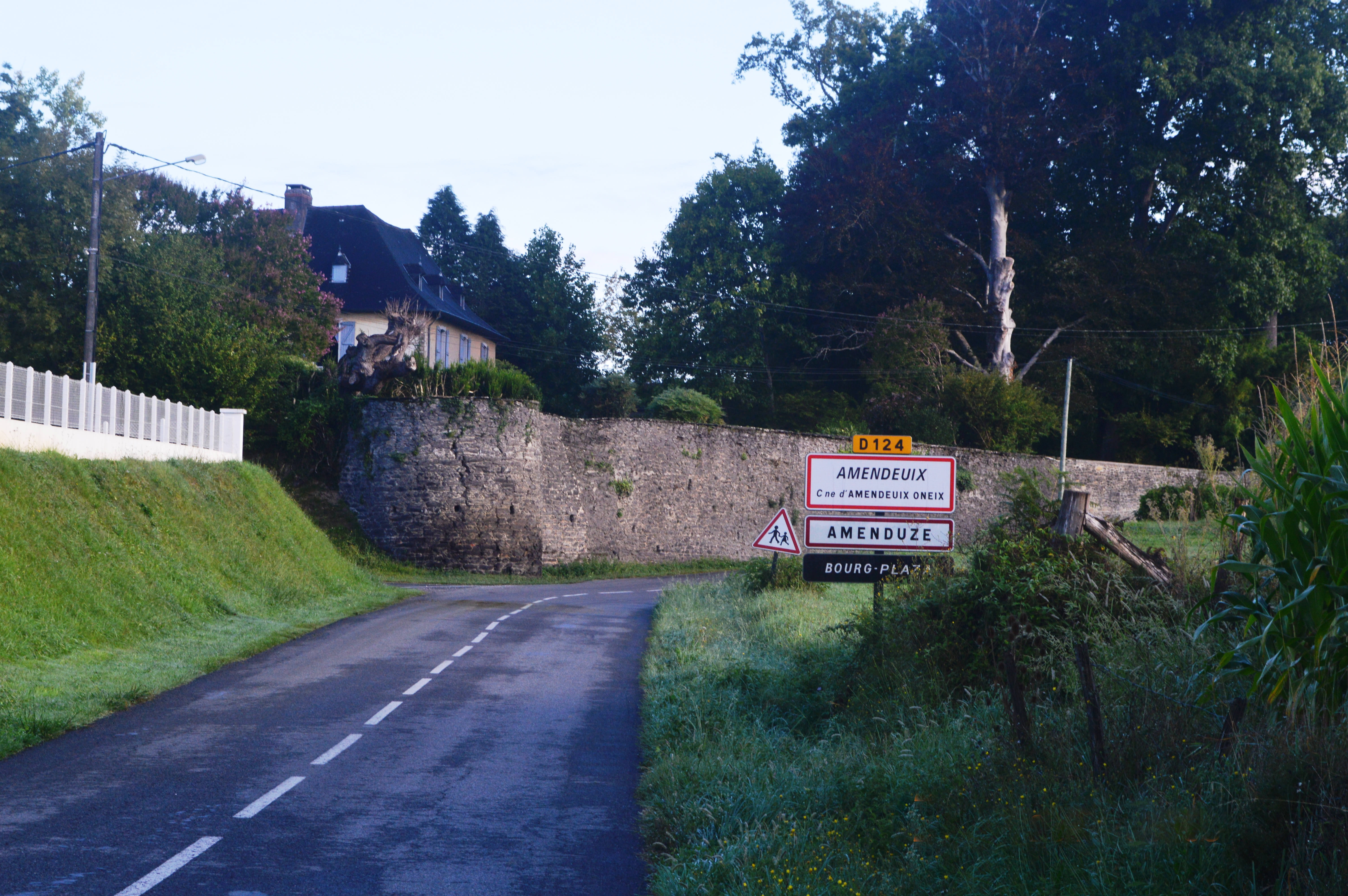 The entry to Amendeuix